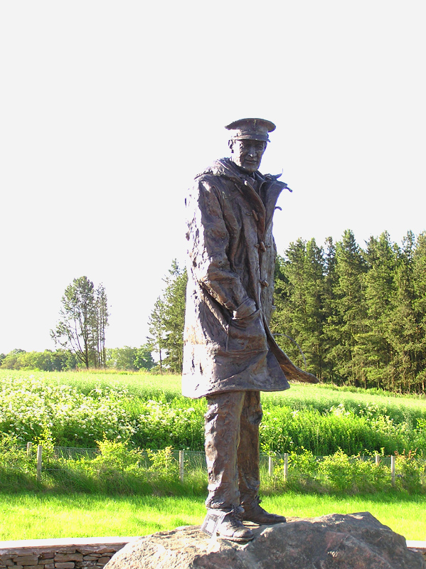 statue of SAS founder Colonel Sir David Stirling